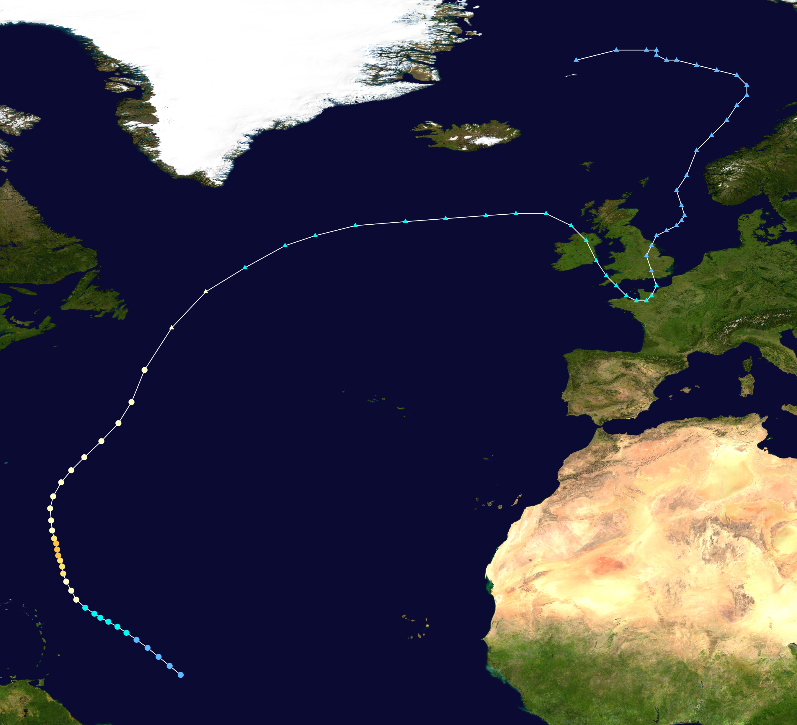 Track map of Hurricane Beulah of the 1963 Atlantic hurricane season. The points show the location of the storm at 6-hour intervals. The colour represents the storm's maximum sustained wind speeds as classified in the Saffir–Simpson scale (see below), and the shape of the data points represent the nature of the storm, according to the legend below. Saffir–Simpson scale Tropical depression≤38 mph≤62 km/h Category 3111–129 mph178–208 km/h Tropical storm39–73 mph63–118 km/h Category 4130–156 mph209–251 km/h Category 174–95 mph119–153 km/h Category 5≥157 mph≥252 km/h Category 296–110 mph154–177 km/h Unknown Storm type Tropical cyclone Subtropical cyclone Extratropical cyclone / Remnant low / Tropical disturbance / Monsoon depression